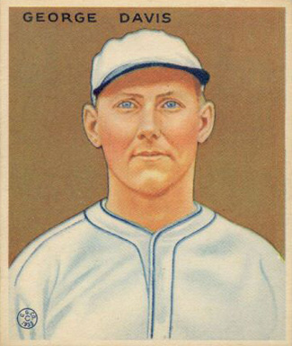 1933 Goudey baseball card of George "Kiddo" Davis of the New York Giants #236. PD-not-renewed.